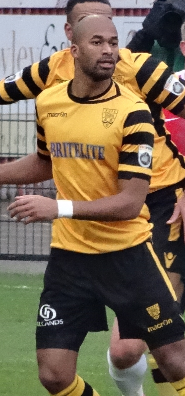 Delano Sam-Yorke playing for Maidstone United against York City at Bootham Crescent, York on 11 February 2017